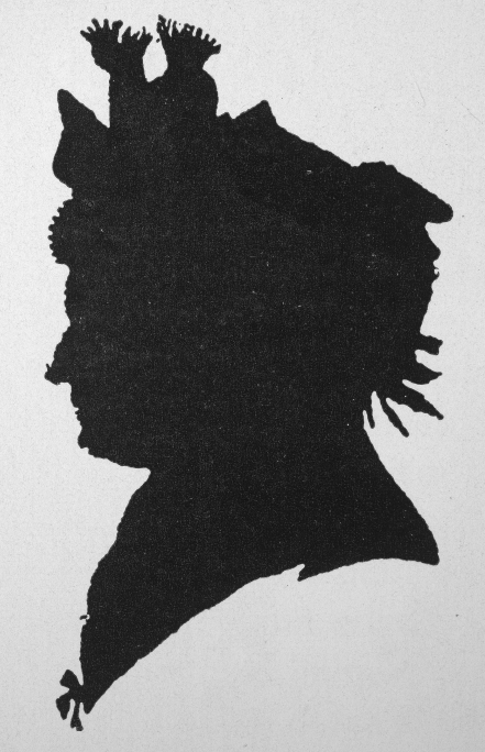 Maria Barbara Bach (1684–1720), first wife of composer Johann Sebastian Bach.